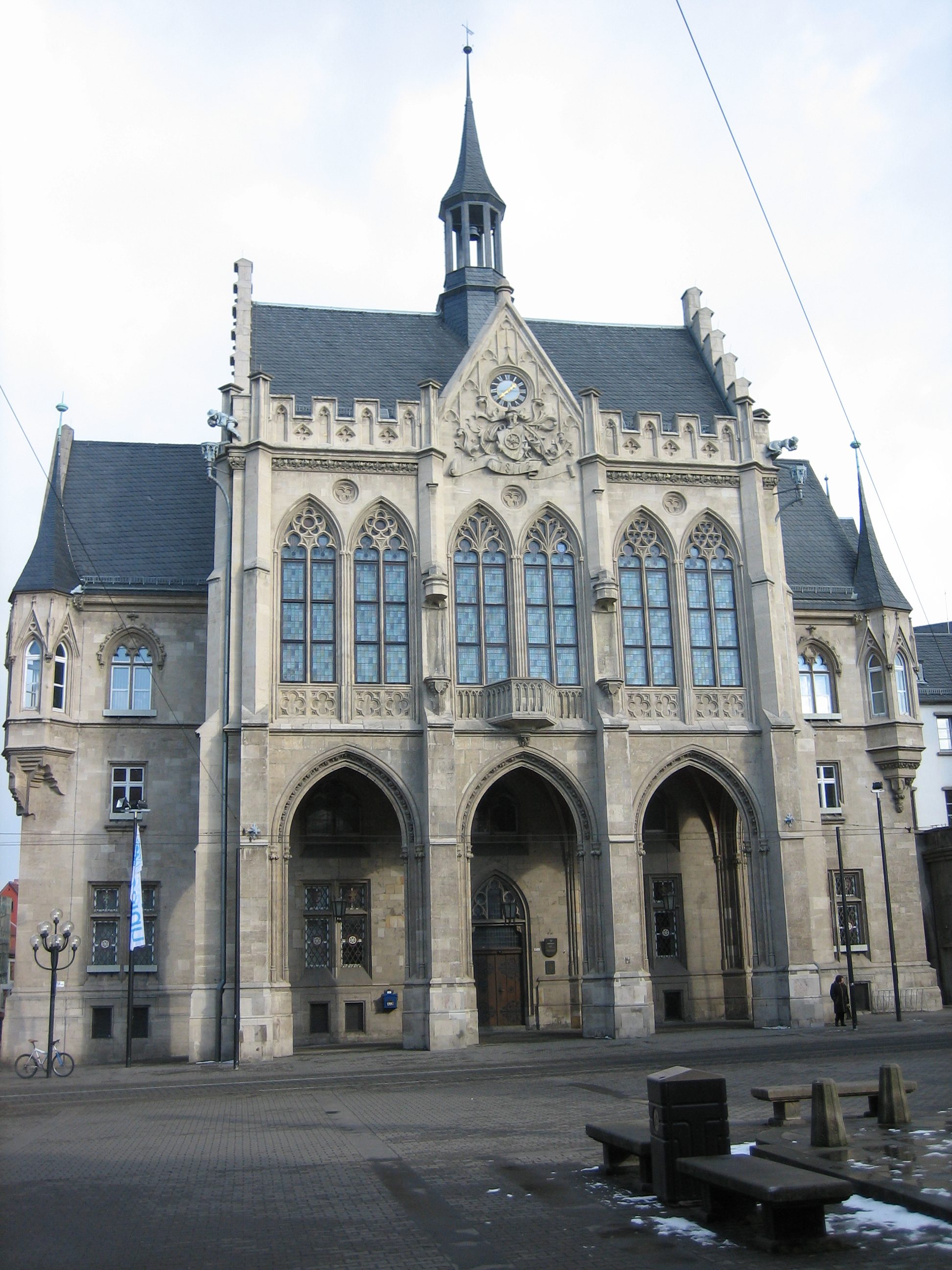 Townhall in Erfurt, Germany.